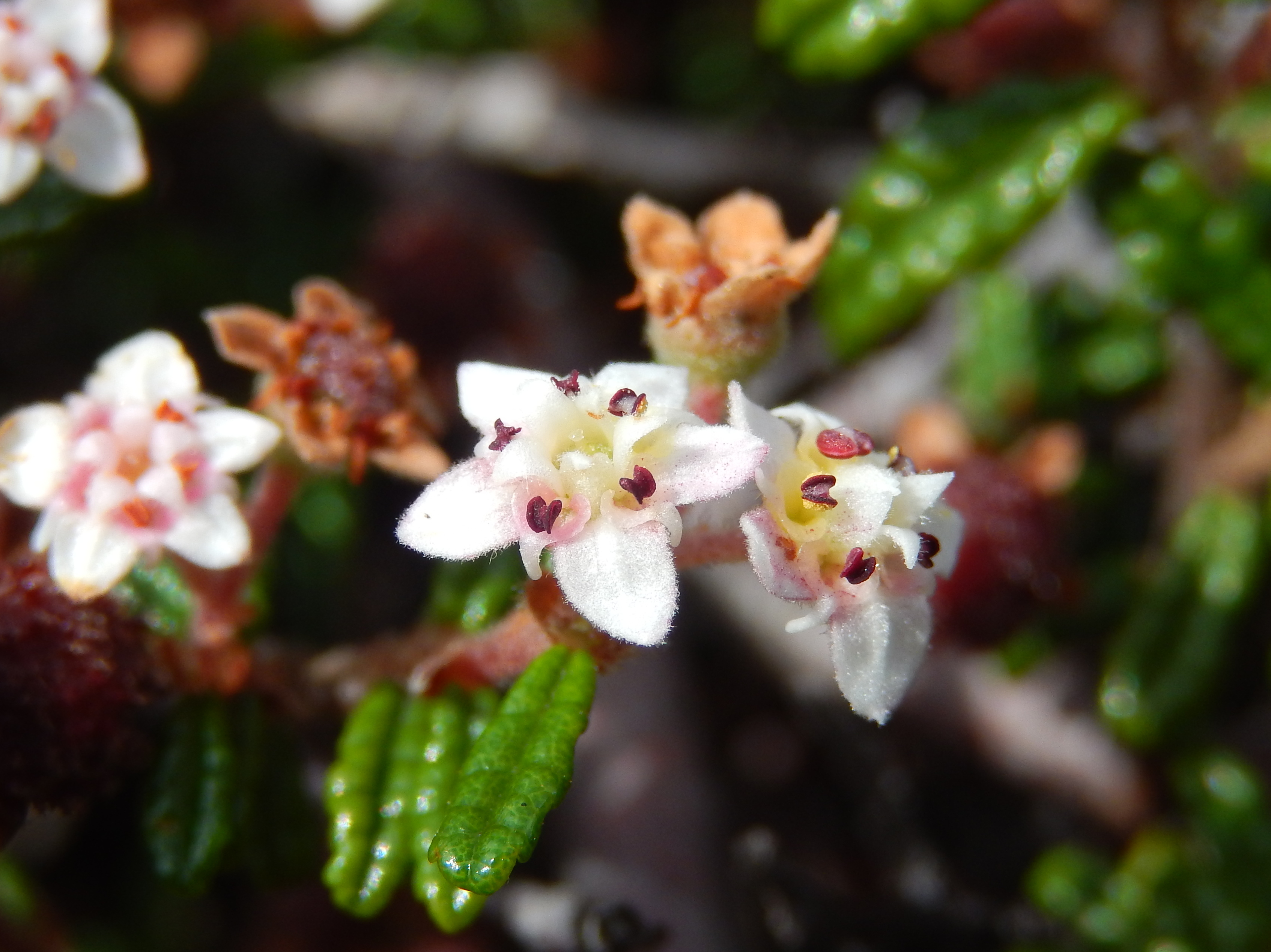 Commersonia hermanniifolia Dee Why south headland